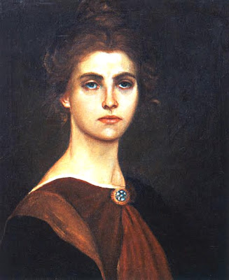 Self portrait of Beatrice Ancillotti Goretti now in the Pitta Palace